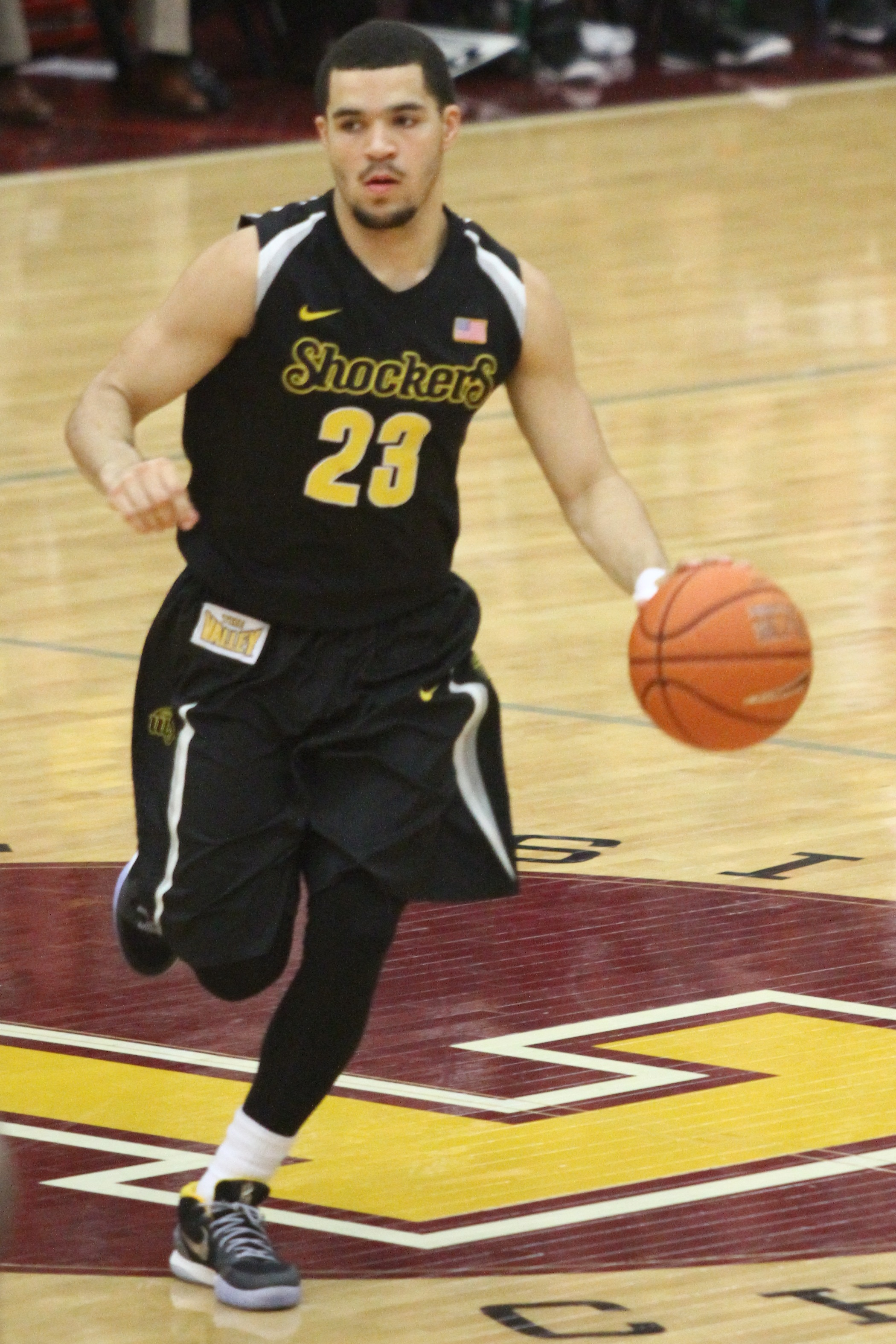 Fred VanVleet for the w:2014–15 Wichita State Shockers men's basketball team at the Joseph J. Gentile Arena